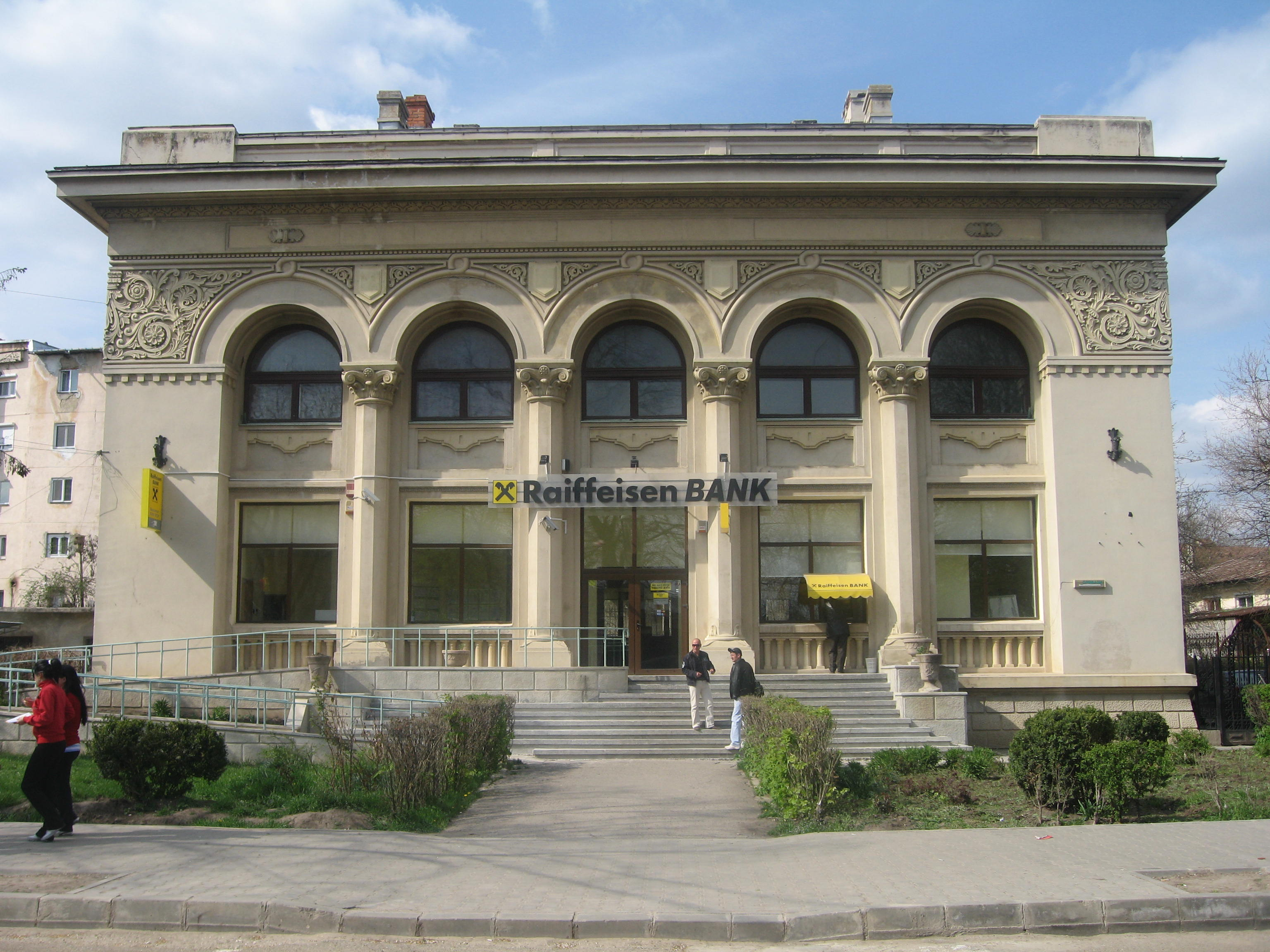 Raiffeisen Bank of Husi, Vaslui County, Romania